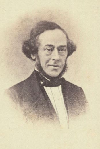 Portait of the swiss physician and entomologist Ludwig Imhoff by Friedrich Hartmann. The original can be found in the Universitätsbibliothek Basel.